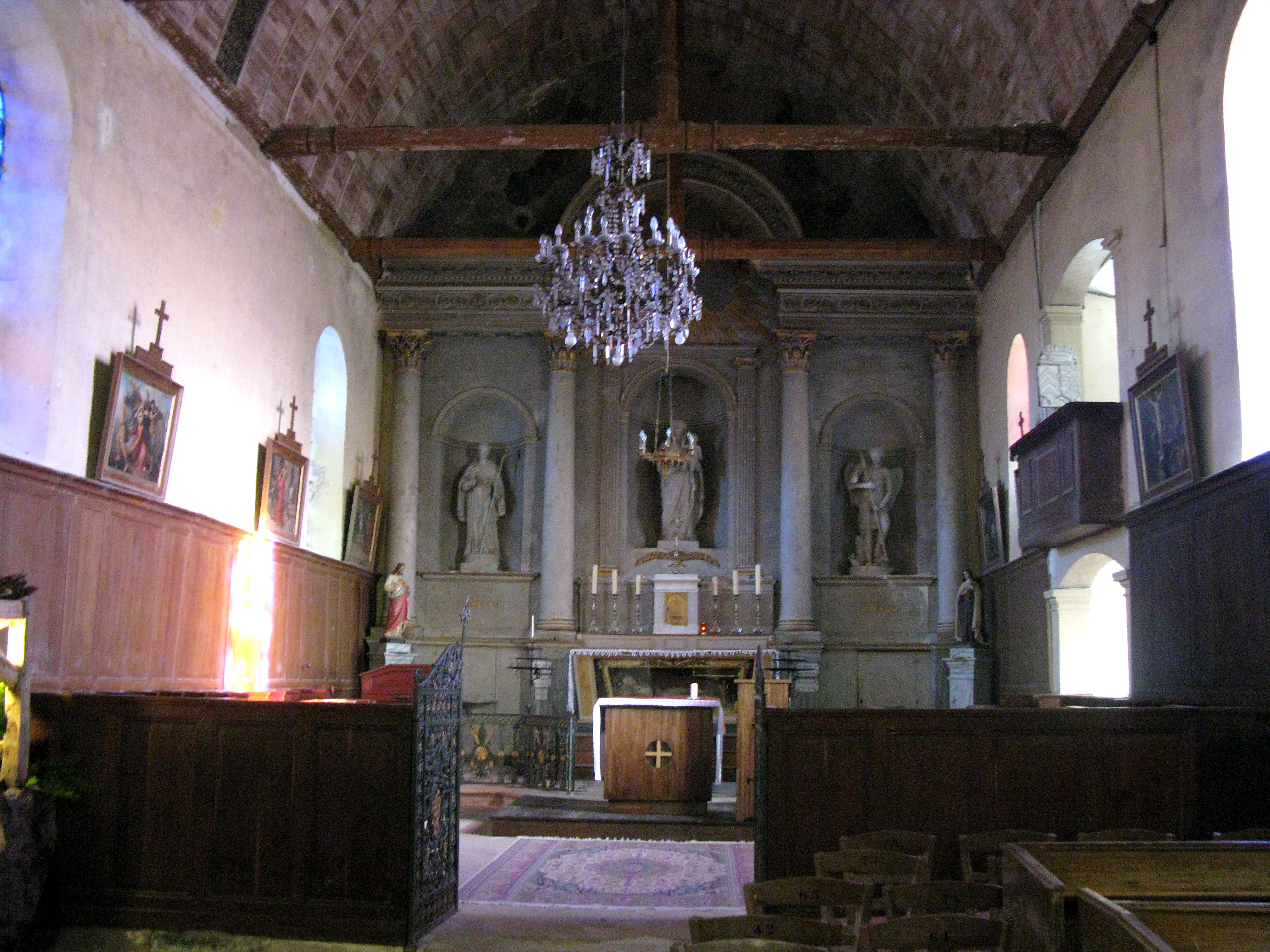 Interior of the church of Montigny-le-Gannelon